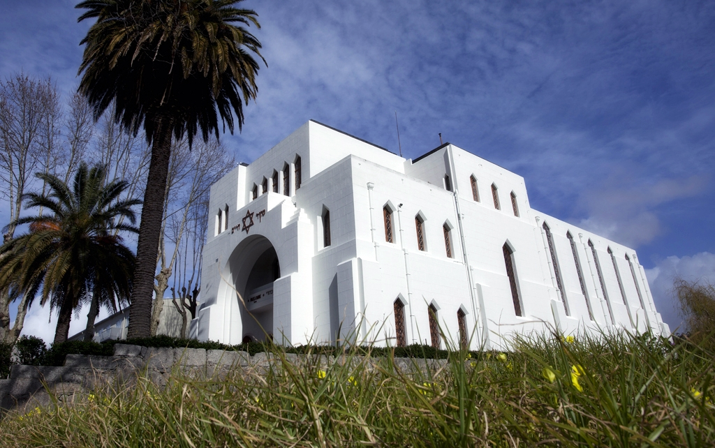 Sinagoga Kadoorie